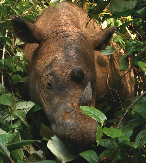 Sumatran Rhinoceros Rosa in the Sumatran Rhino Sanctuary, Way Kambas, Sumatra, Indonesia